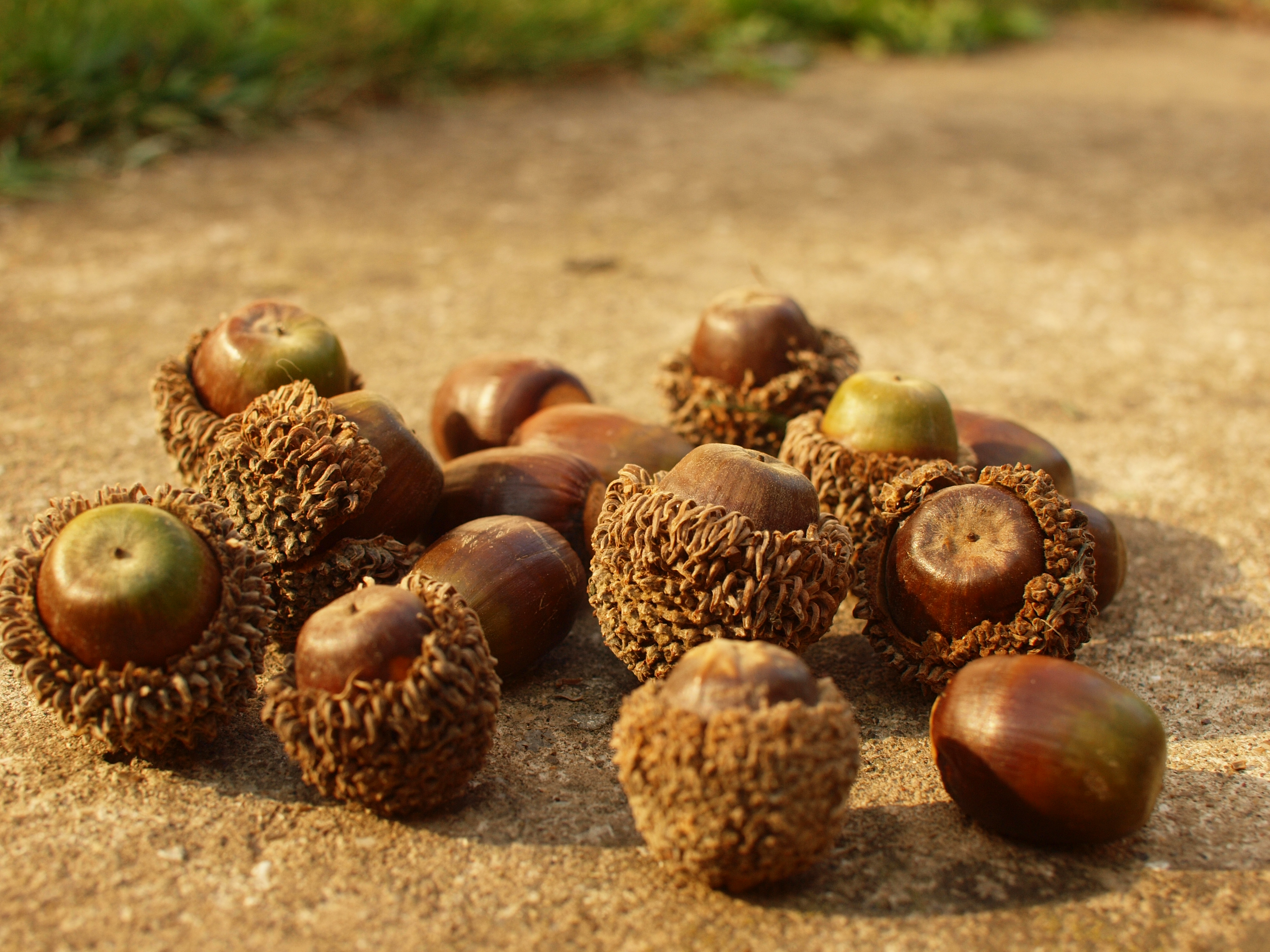 Quercus trojana Früchte